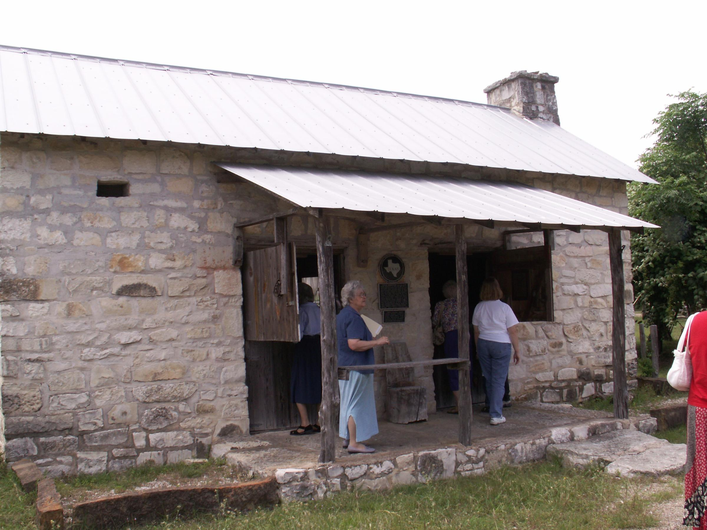 My personal property. Photo of a home built by Logan Vandeveer, taken by me on April 21, 2007 at Ft. Croghan, Burnet, TX.